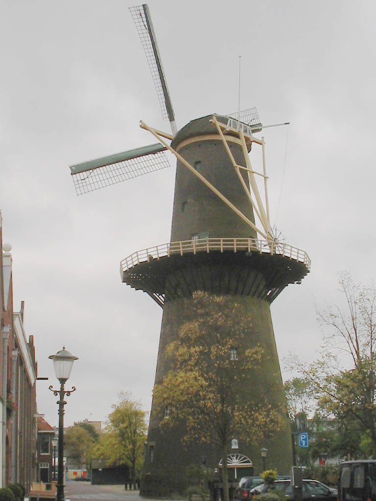 Mill in Schiedam (highest mill of the world), Netherlands